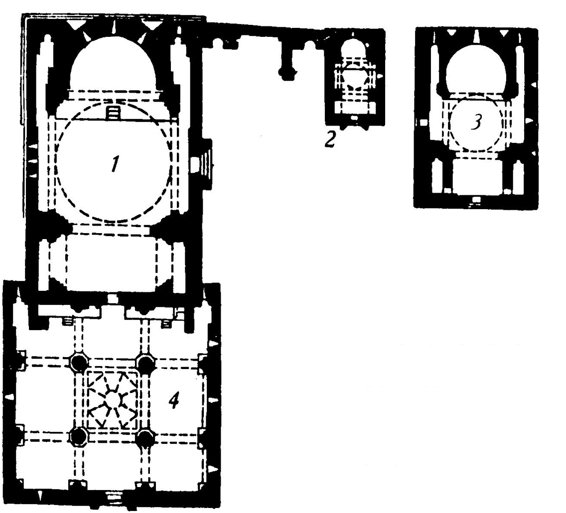 Kecharis monastery plan. (This file got from "Soviet Armenian Encyclopedia" with "Creative Commons BY-SA 3.0" License.)